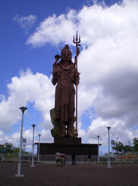 Shiva - Mauritius Island